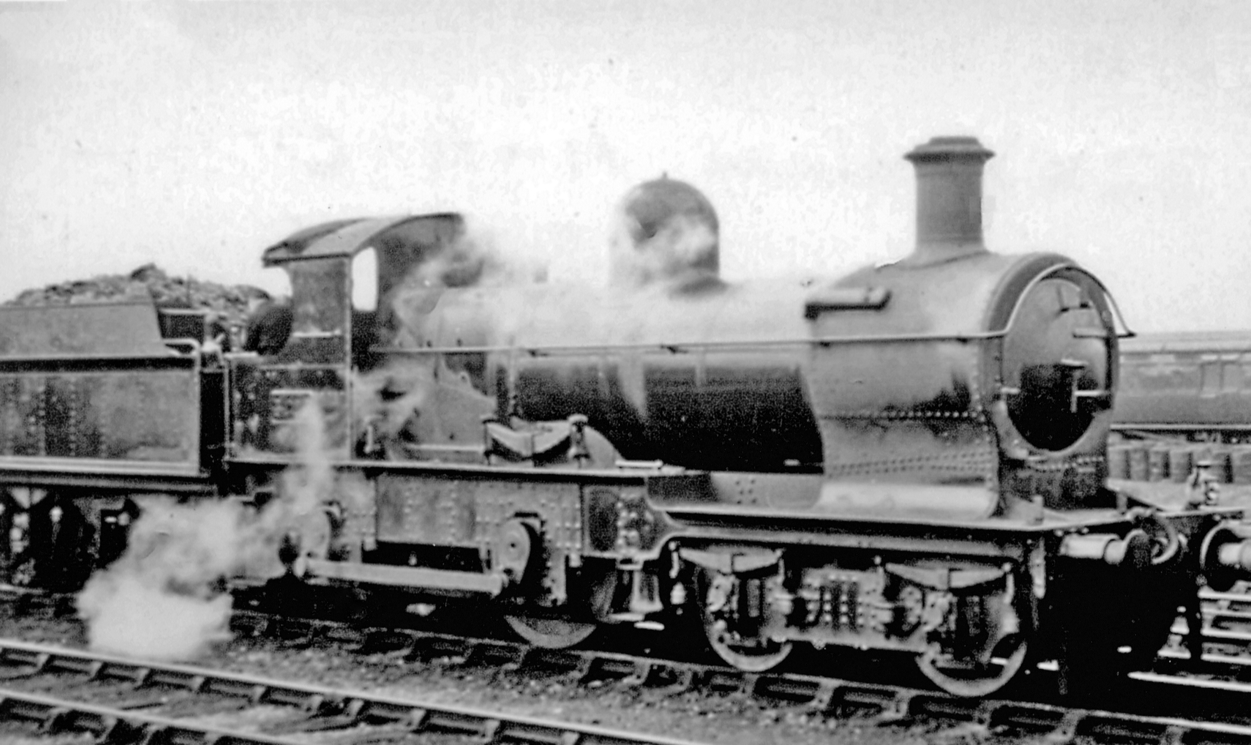 'Dukedog' 4-4-0 at Swindon, 1946Seen from the platform at Swindon Station, No. 3223 is just before it was renumbered 9023; it was built 2/39, incorporating the frames of 'Bulldog no. 3423 and replaced 'Duke' no. 3253. [This is one of my earliest photographs, using a primitive camera].